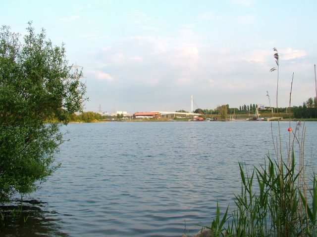 View over Sale Water Park, taken in May 2007, from the north east of the lake, on the edge of Broad Ees Dole, looking towards Deckers. The bridge in the far background, behind the water sports centre and restaurant complex, is a footbridge over the M60.